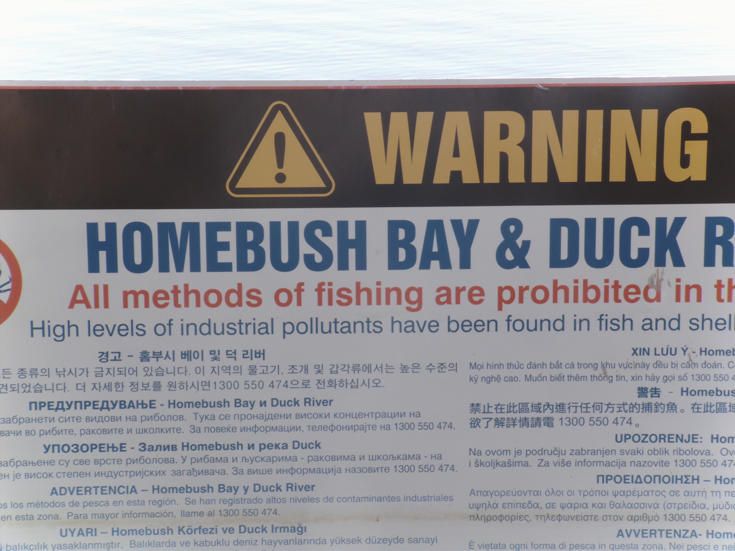 A sign in Homebush Bay warning the residents of the newly developed area of Rhodes, NSW of the dangers of eating fish from Homebush Bay where fishing is banned as a result of dioxin and other contamination which is being remediated as at February 2009